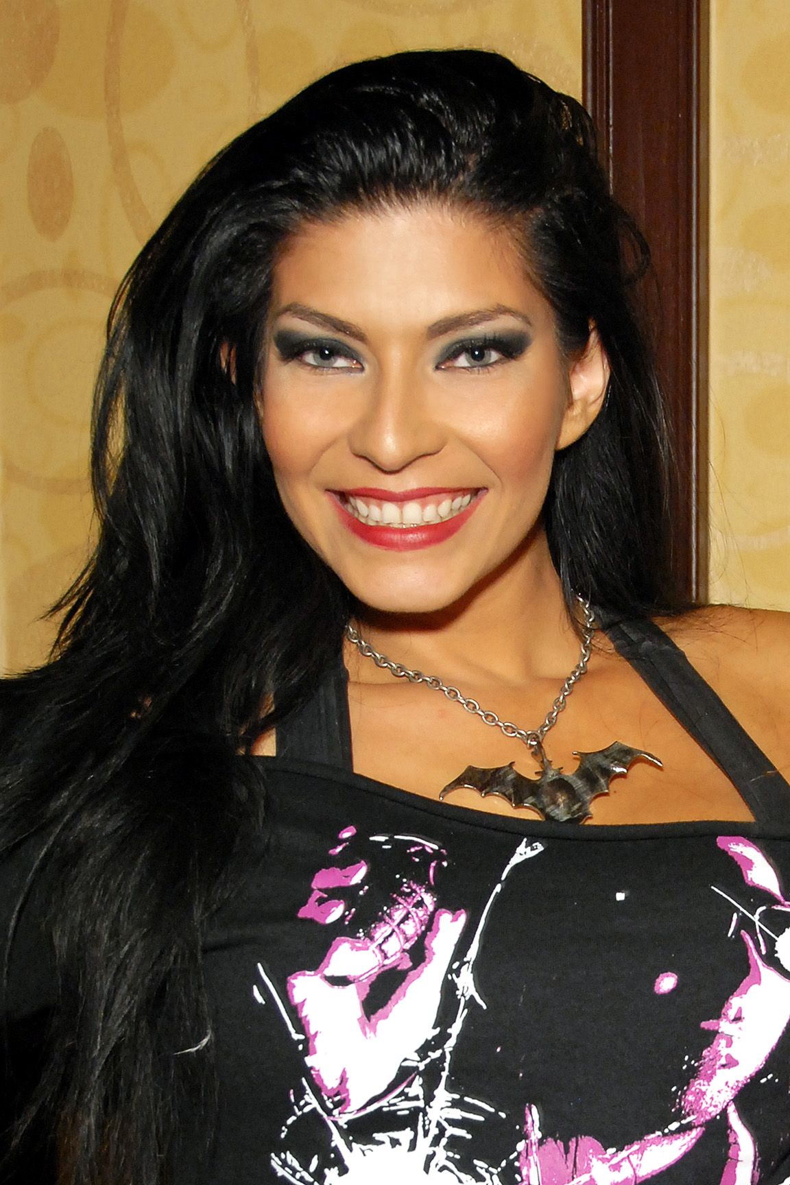 Shelly Martinez, Los Angeles, CA on October 1, 2011 - Photo by Glenn Francis of